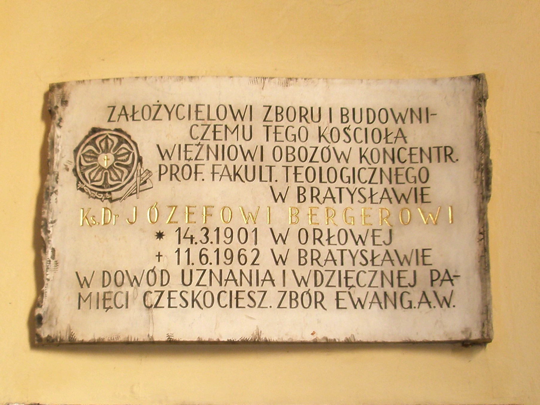 Plaque commemorating superintendent Józef Berger in Lutheran Church in Český Těšín Na nivách